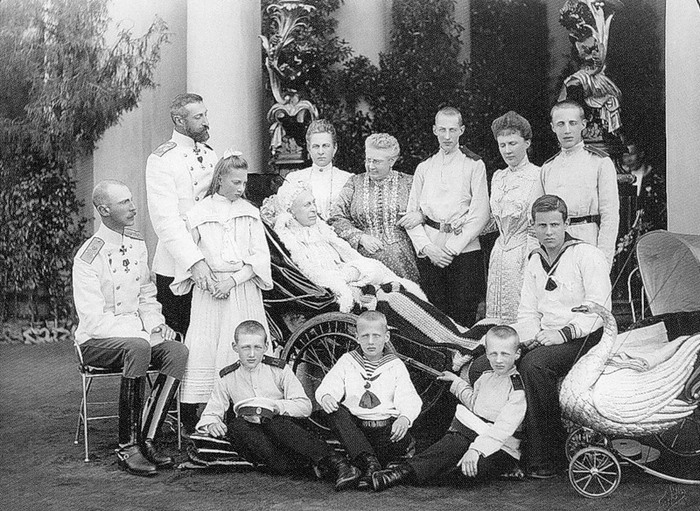 The Constantinovich branch of the Romanov faily